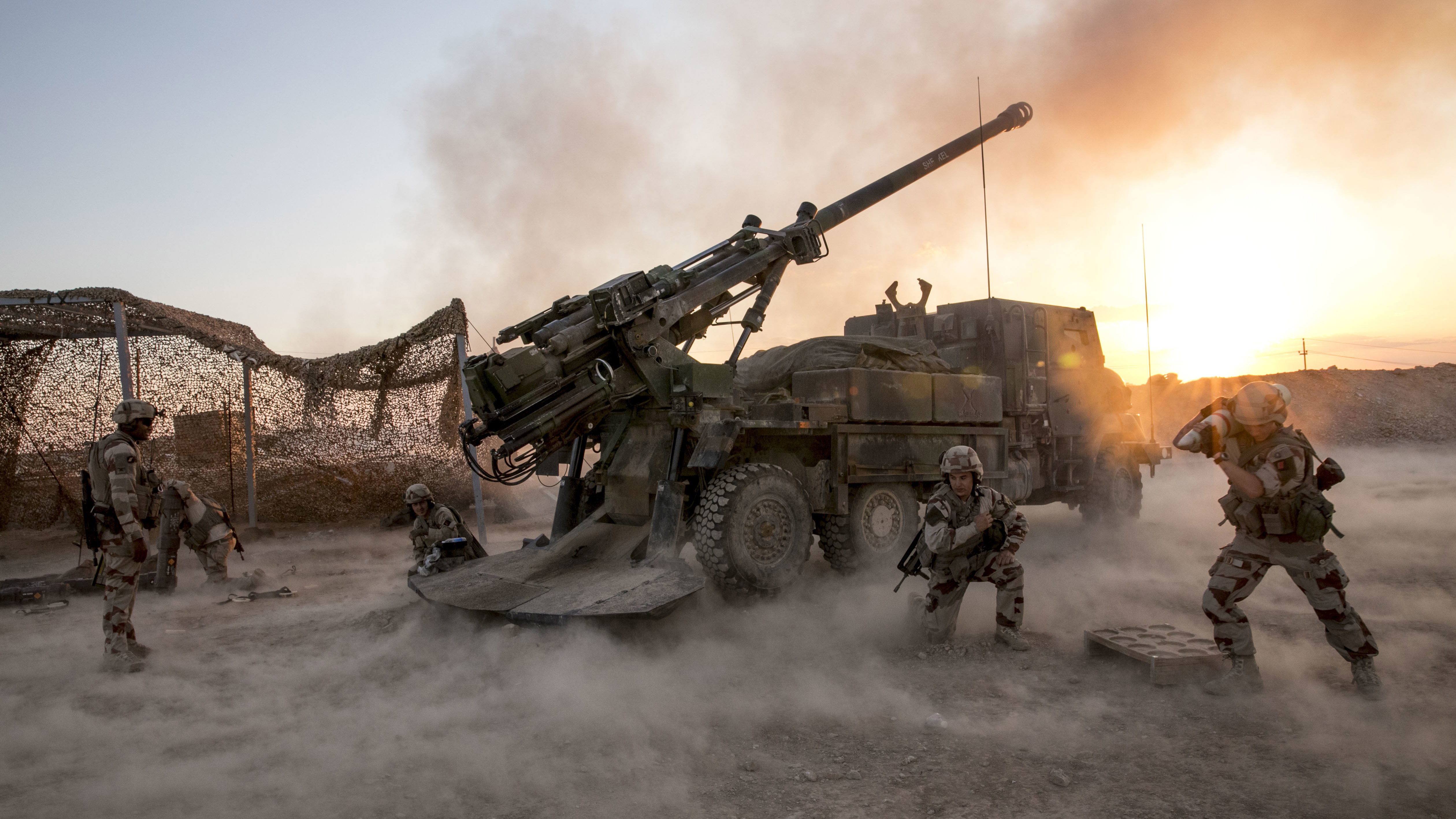 French soldiers, assigned to Task Force Wagram, fire a French Caesar in support of Operation Roundup, in Al Quim, Iraq, May 16, 2018. As a non-permanent force the Coalition aims to enable the Iraqi security forces to be self-sufficient. (U.S. Army photo by Spc. Zakia Gray)